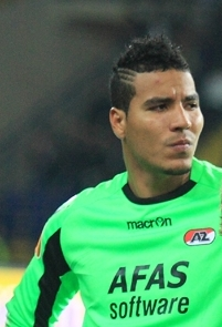 Esteban Alvarado as a player of AZ